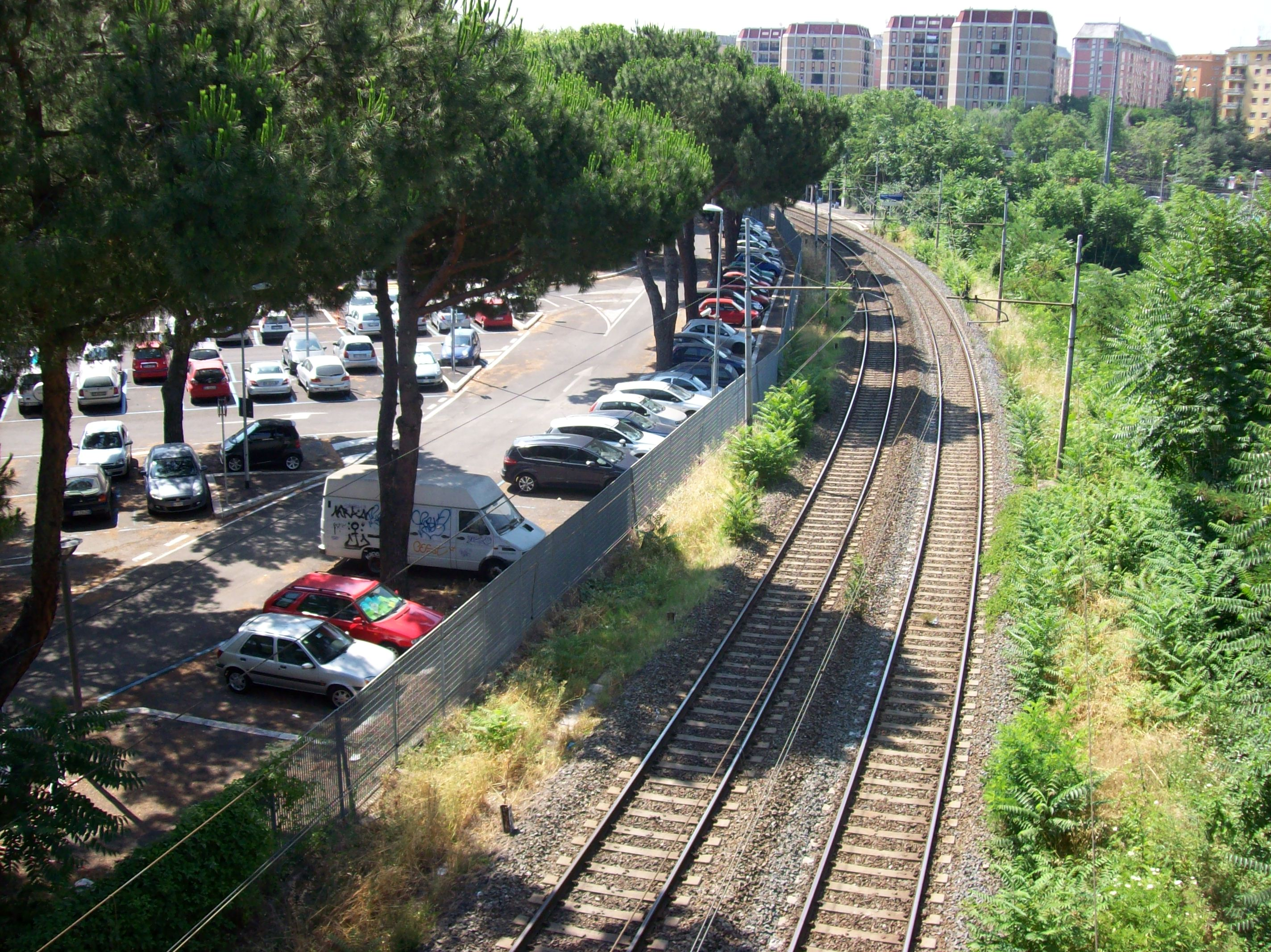 The Florence-Rome railway (low speed) in Rome at the Trieste-Monte Sacro quarters